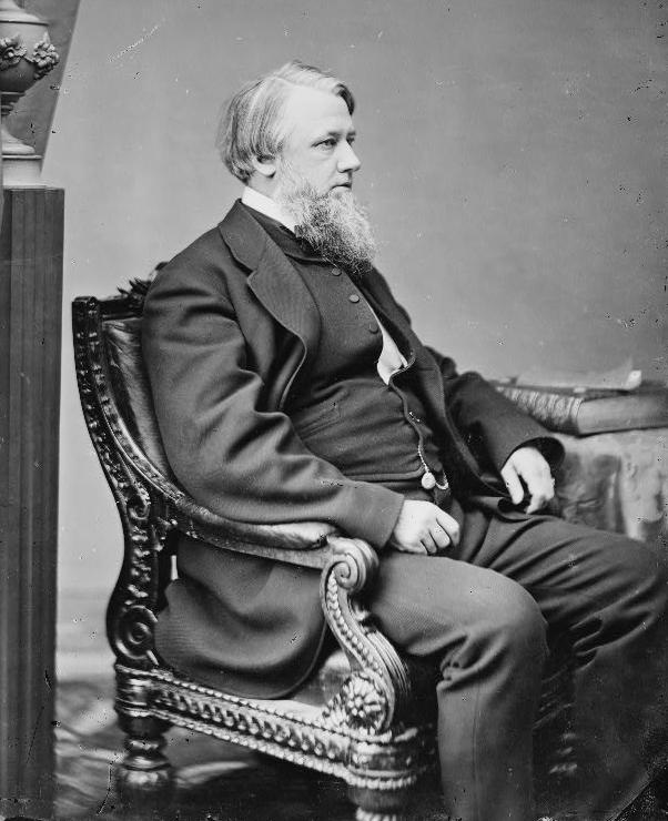 Henry B. Anthony